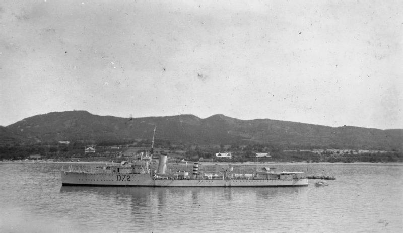 The Admiralty Modified W Class destroyer HMS VETERAN off Wei-Hai-Wei, China, summer 1927.